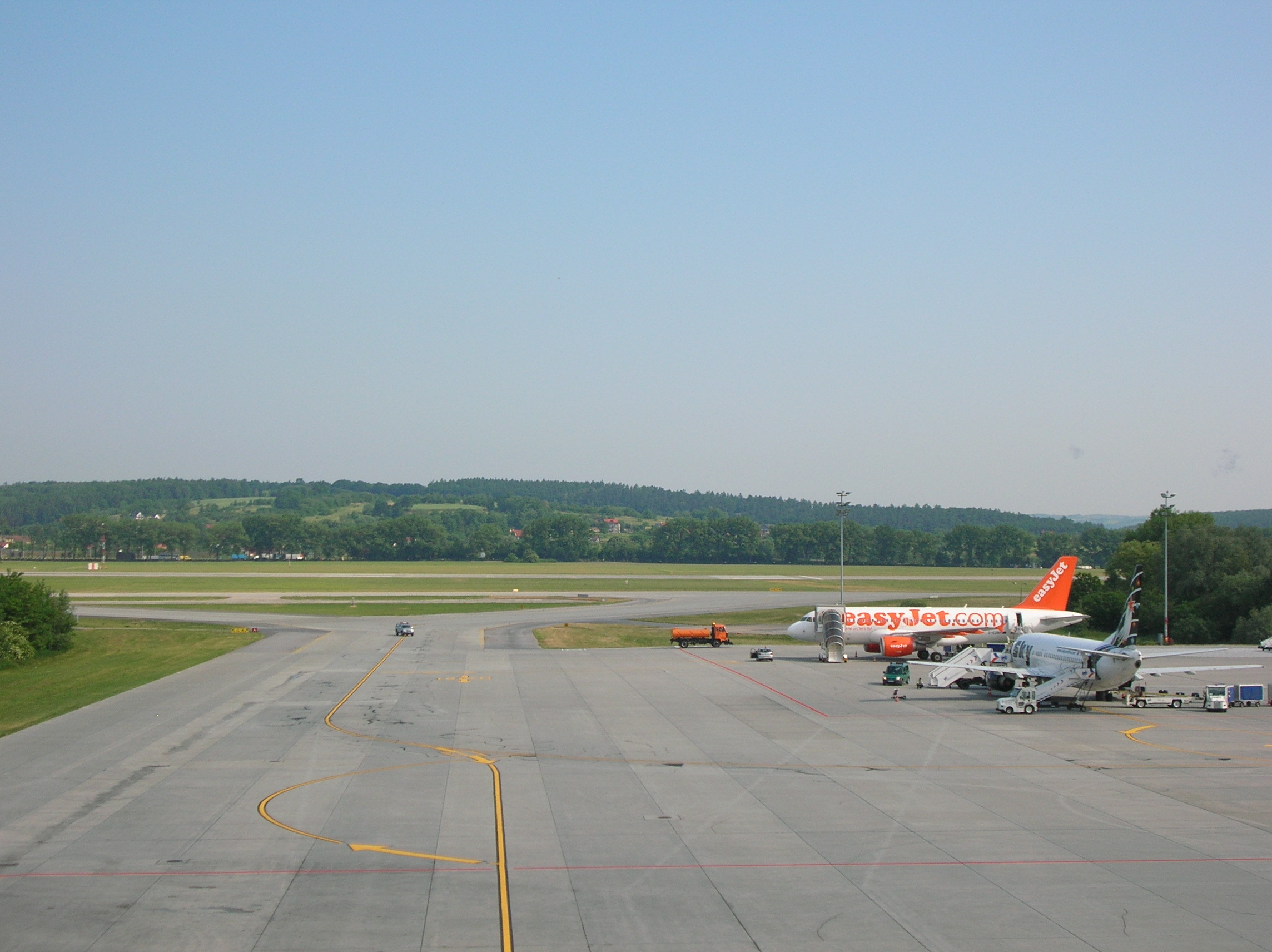 John Paul II International Airport Kraków-Balice